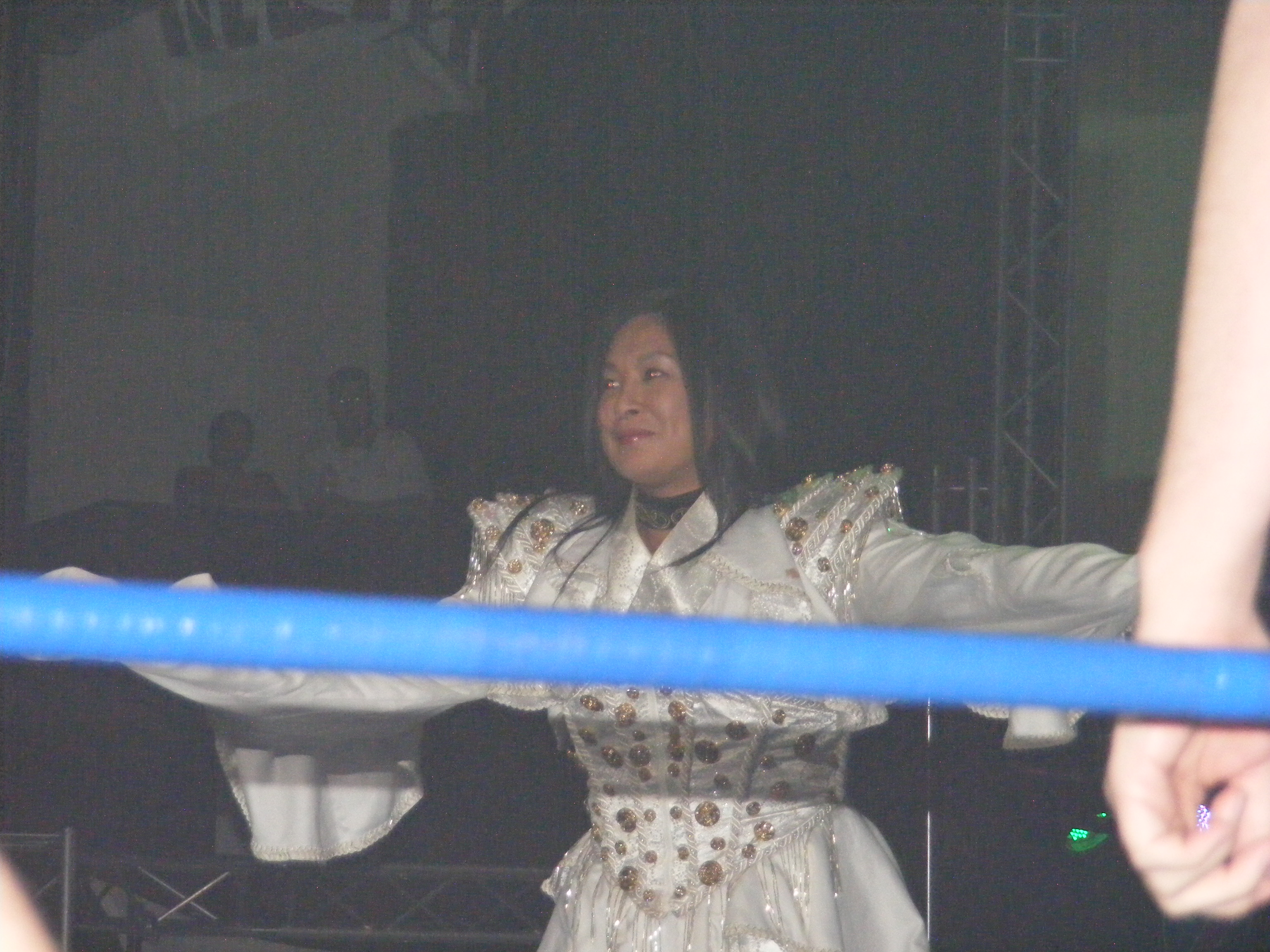 Professional wrestler Manami Toyota at Chikara King of Trios 2011.